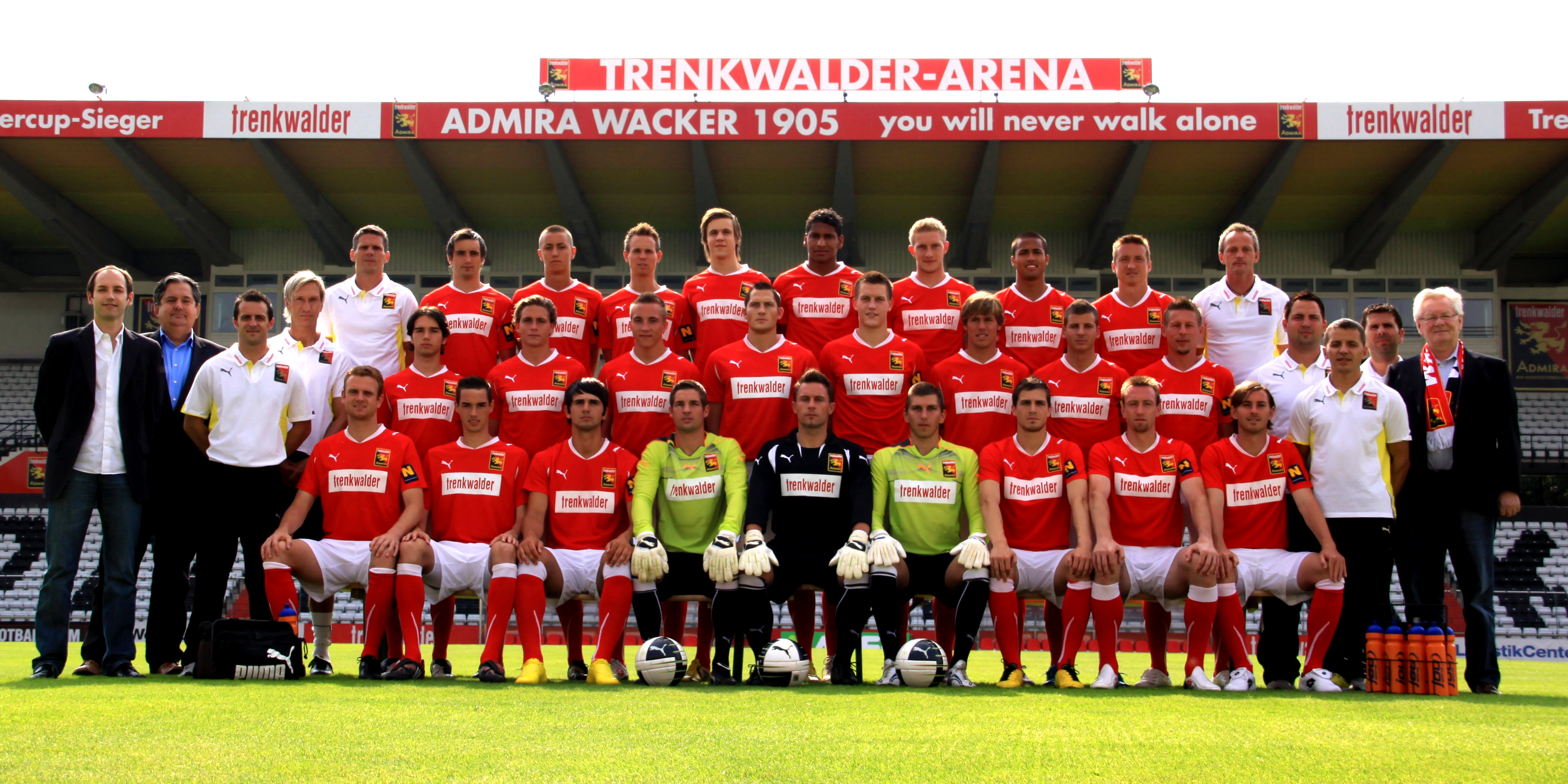 FC Admira Wacker Mödling Austrian Football Bundesliga 2010–11 → For the names of the players move the mouse over the photo.